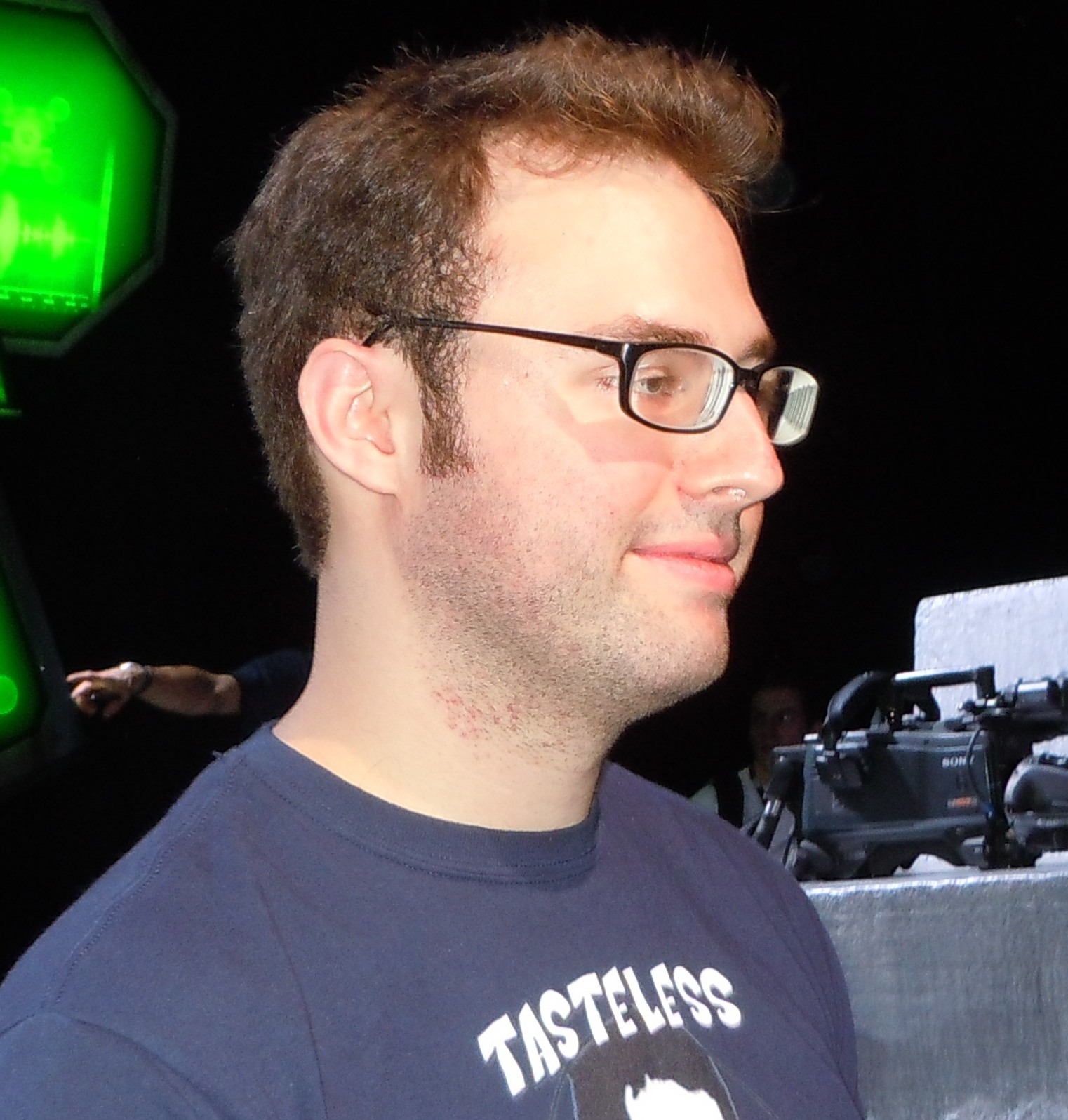 Day[9] holding a trollface.